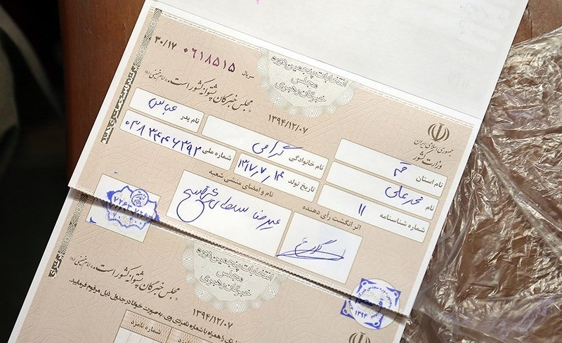 Iranian election ballot